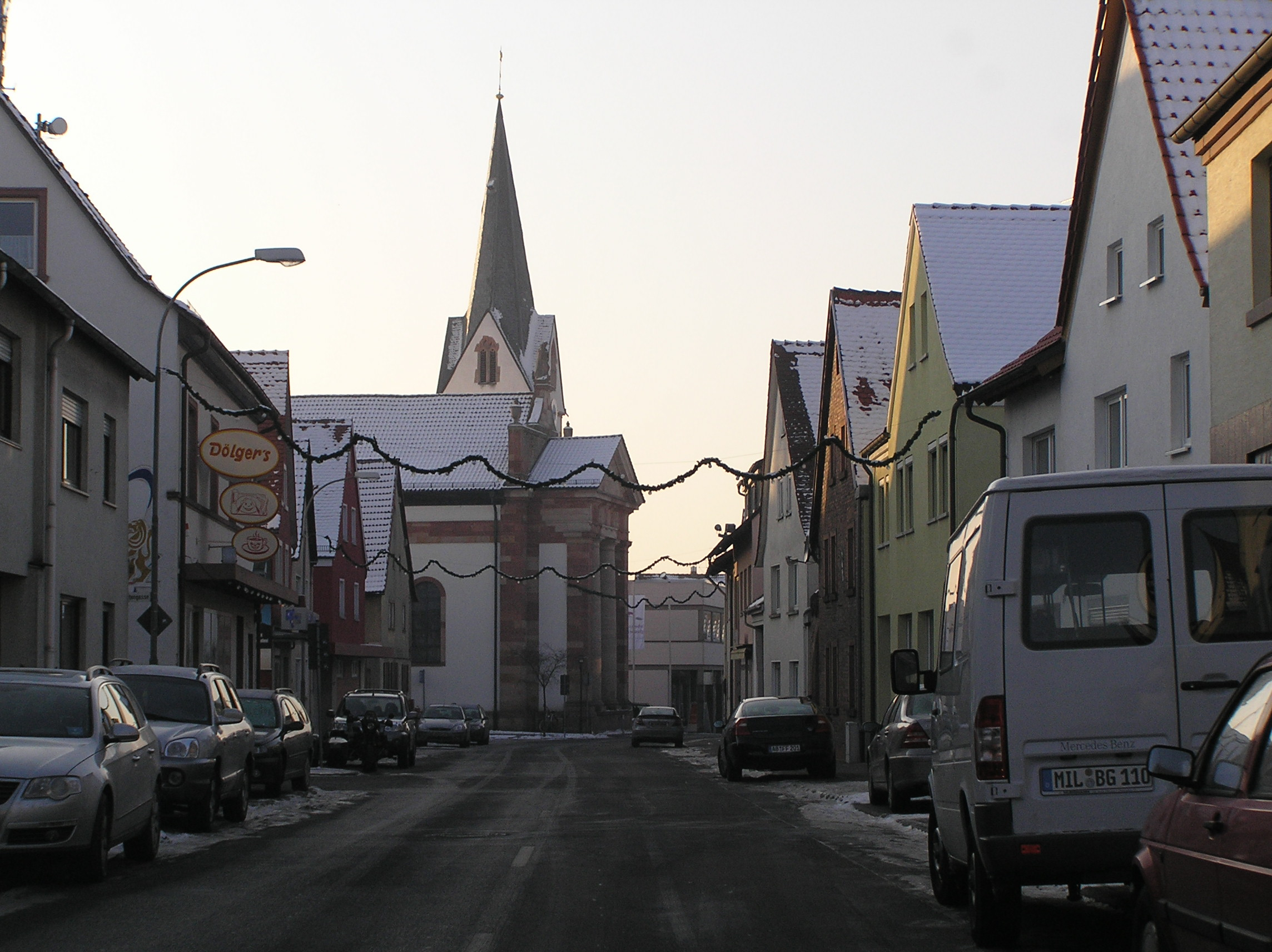 Spessartstrasse in Sulzbach, with a view of the Catholic church